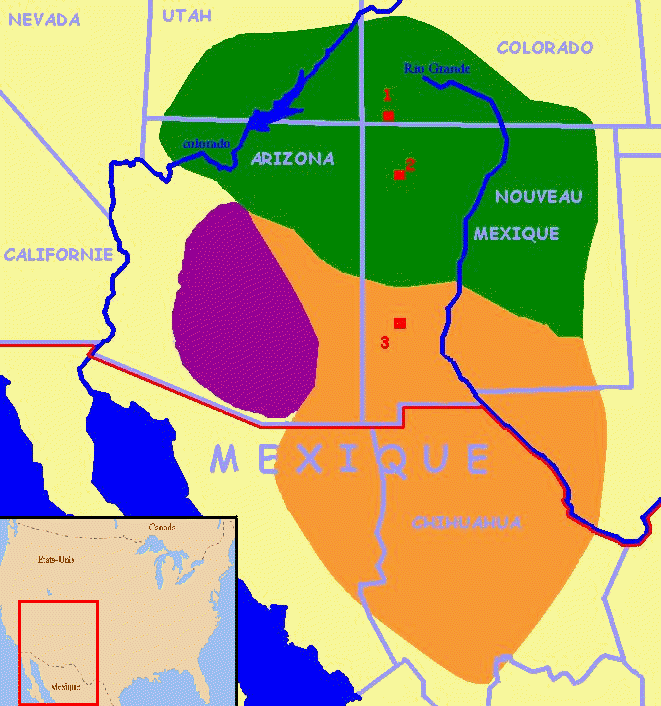 Map Four Corners